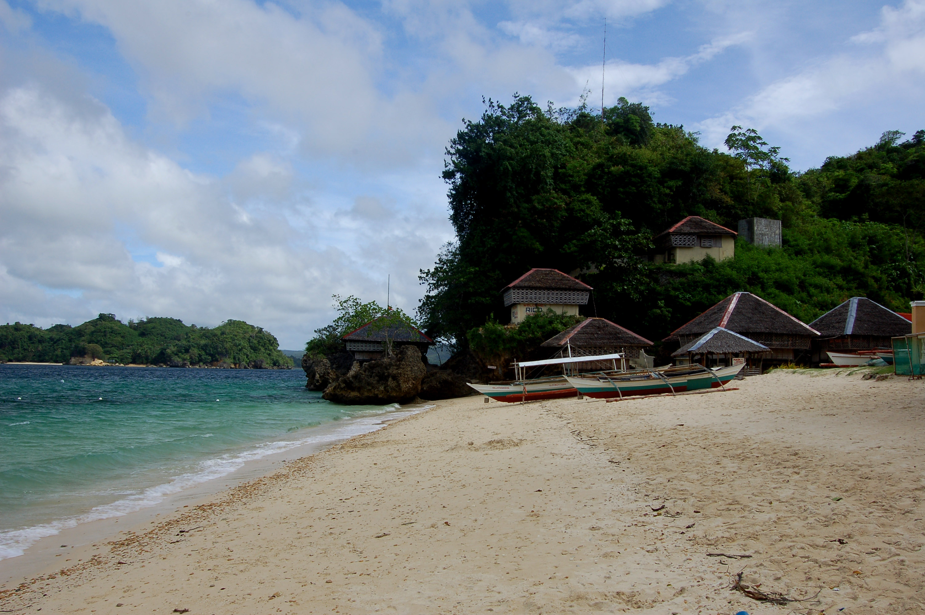 Raymen Beach Resort, Nueva Valencia,Guimaras, Visayas Islands, the Phillippines